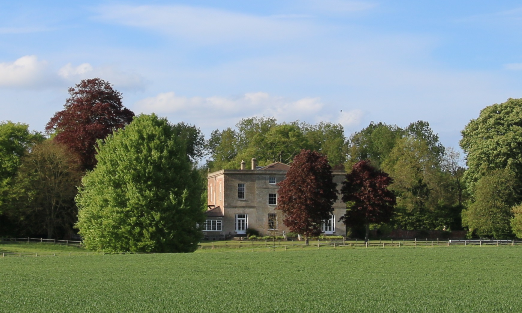 Ashton Gifford House, south side, showing the setting in the wider landscape